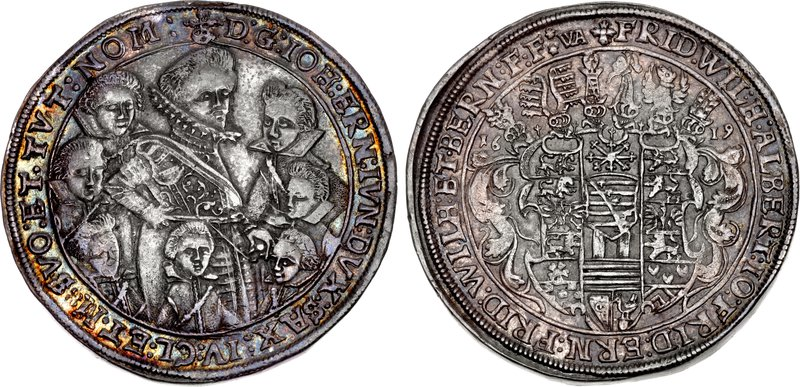 GERMANY, Sachsen-Ernestinische Linie (Sachsen-Weimar [Herzogtum]). Johann Ernst, with his seven brothers. 1605-1620. AR Taler (41mm, 29.14 g, 7h). Saalfeld mint. Dated 1619. Half-length busts of Johann Ernst and his brothers / Coat-of-arms surmounted by six helmets. Koppe 210; Schnee 349; Davenport 7529.